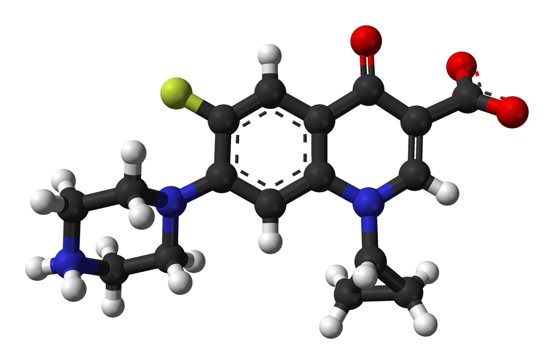 Ball-and-stick model of the ciprofloxacin zwitterion, C17H18FN3O3, as found in the crystalline methanol hemisolvate. X-ray crystallographic from X. Li, Y. Hu, Y. Gao, G. G. Z. Zhang and R. F. Henry (December 2006). "A methanol hemisolvate of ciprofloxacin". Acta Cryst. E62 (12): o5803-o5805. Image generated in Accelrys DS Visualizer.